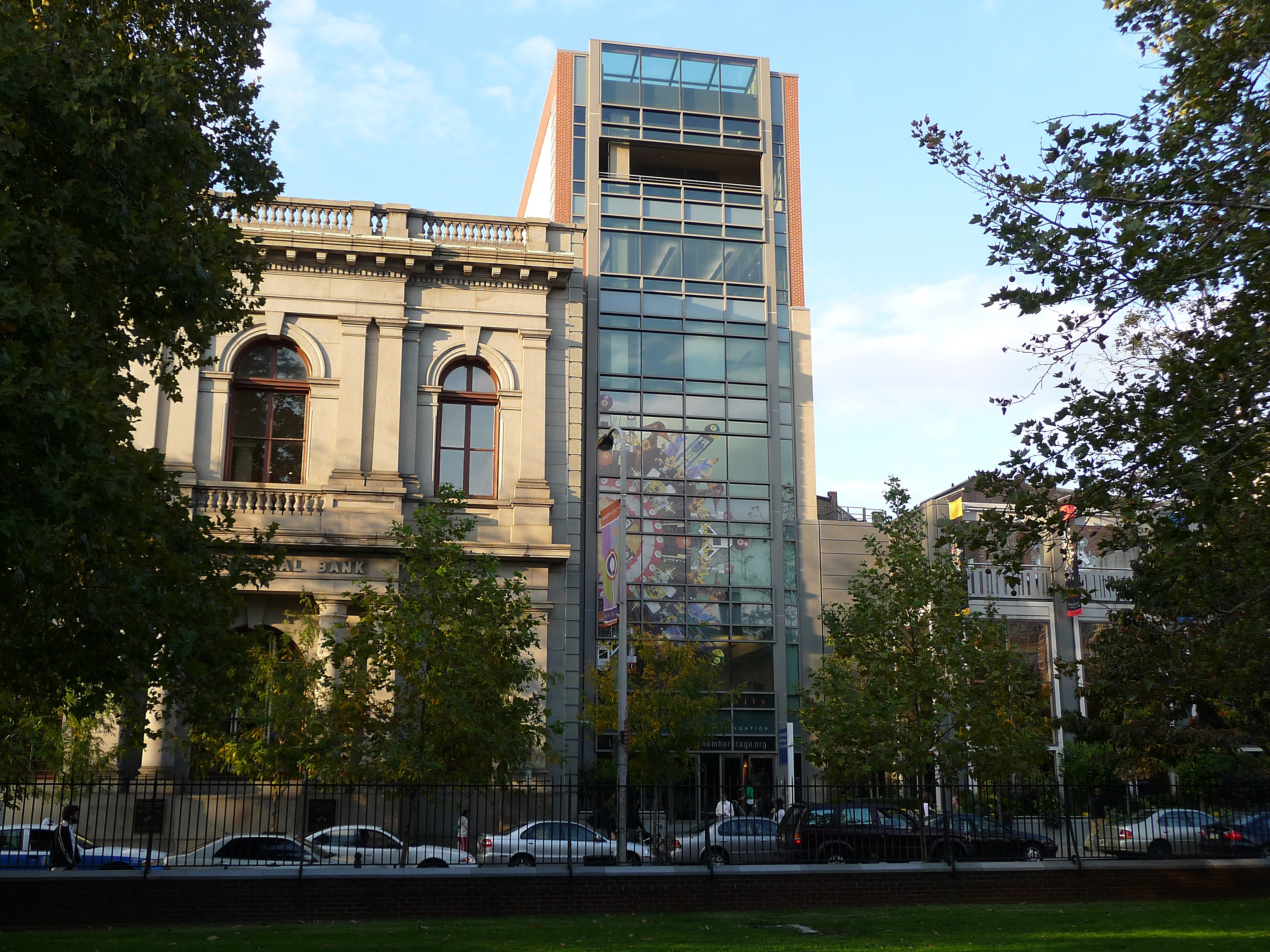 This is the exterior of the Chemical Heritage Foundation building, 315 Chestnut Street, Philadelphia, Pennsylvania. The photograph was taken by a staff person at the Chemical Heritage Foundation, which was renamed the Science History Institute as of February 1, 2018. Copyright of the image belongs to the Science History Institute.